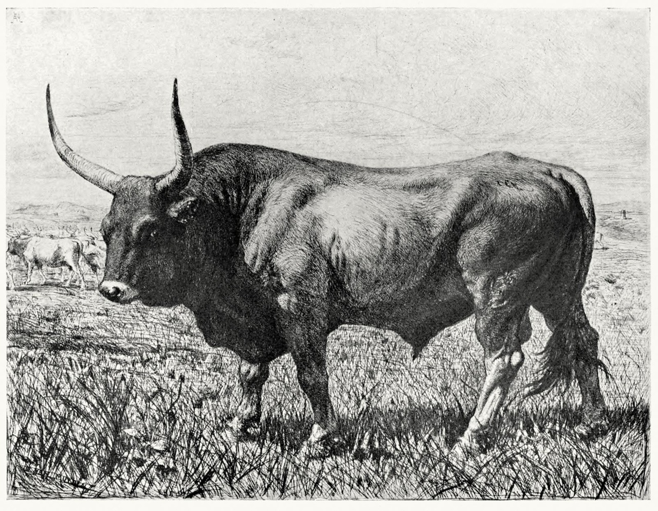 Bull of the Roman Campagna, from an etching by Evert van Muyden.From The golden age of engraving, by Frederick Keppel, New York, 1910.